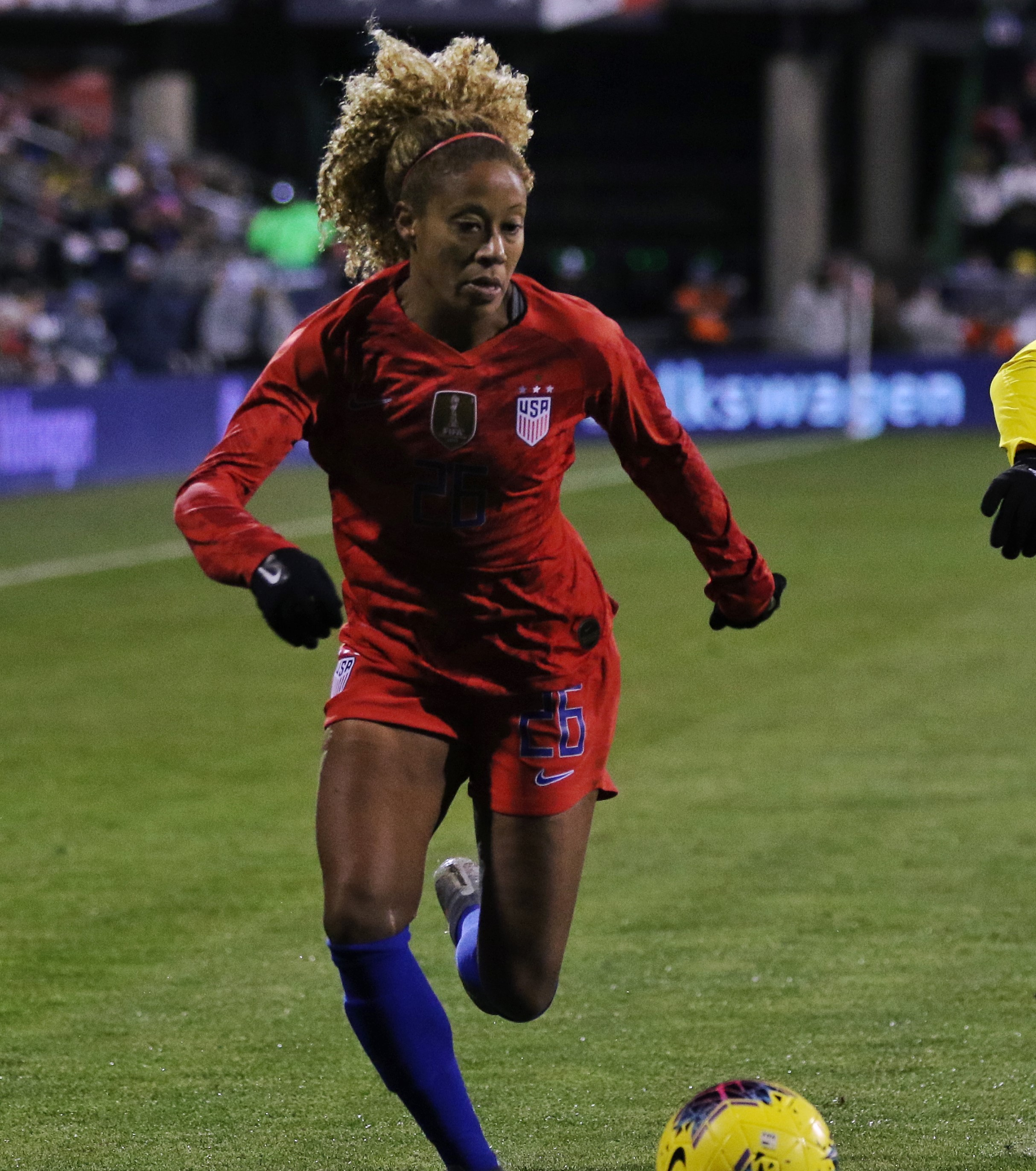 Casey Short playing for the United States against Sweden on Nov. 7, 2019.